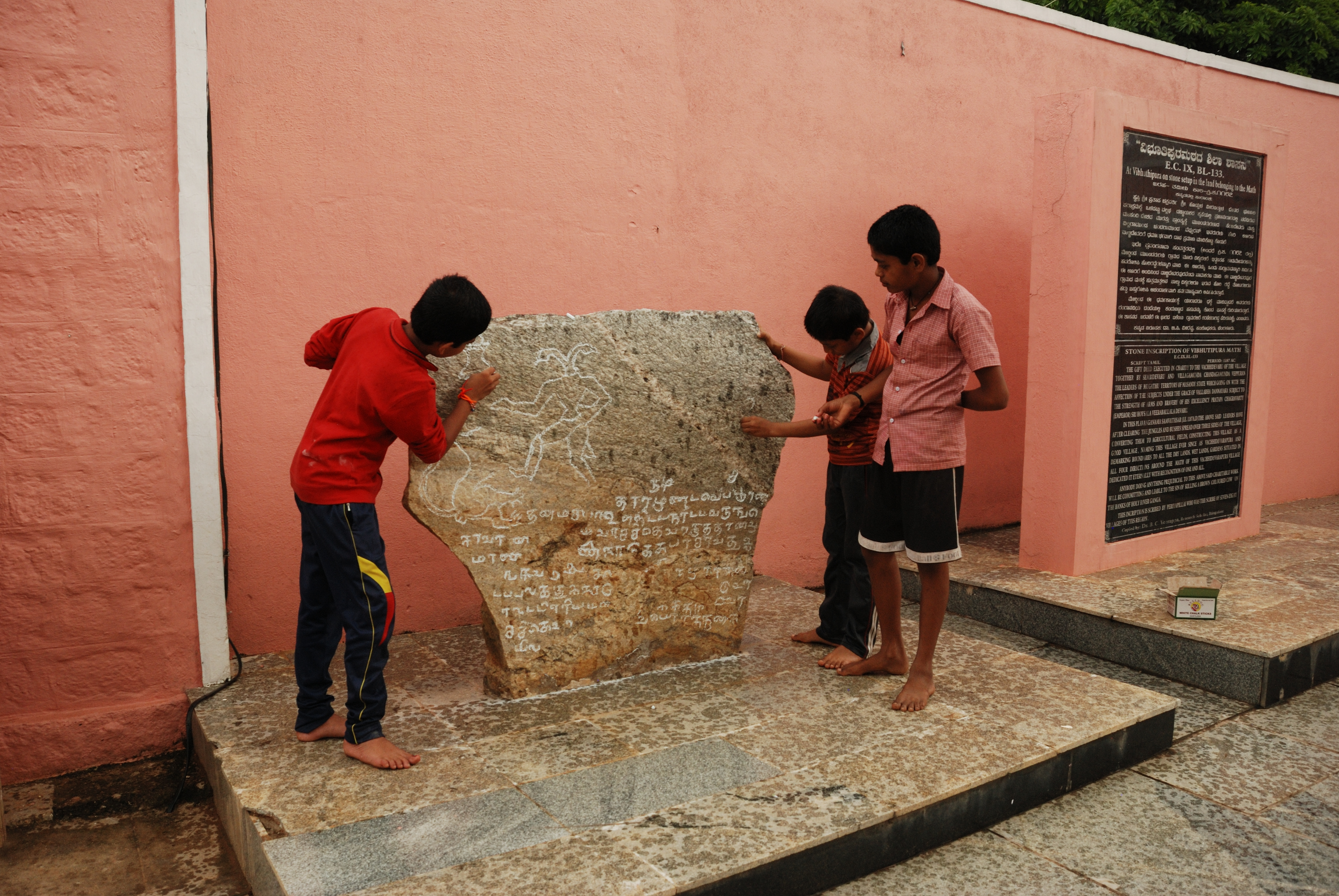 inscriptionstonesofbangalore